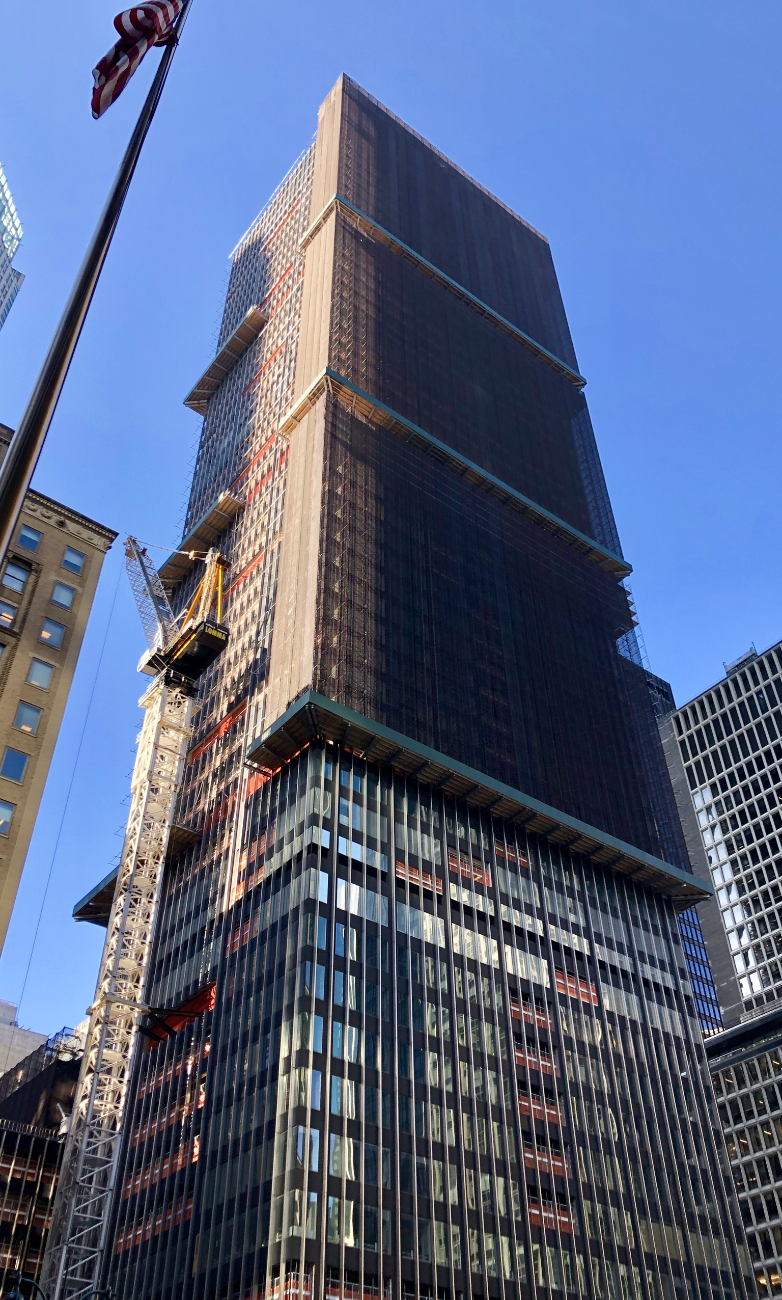 The demolition of 270 Park Avenue continues with scaffolding crane as seen in October 2019 looking northwest from the east side of Park Avenue.